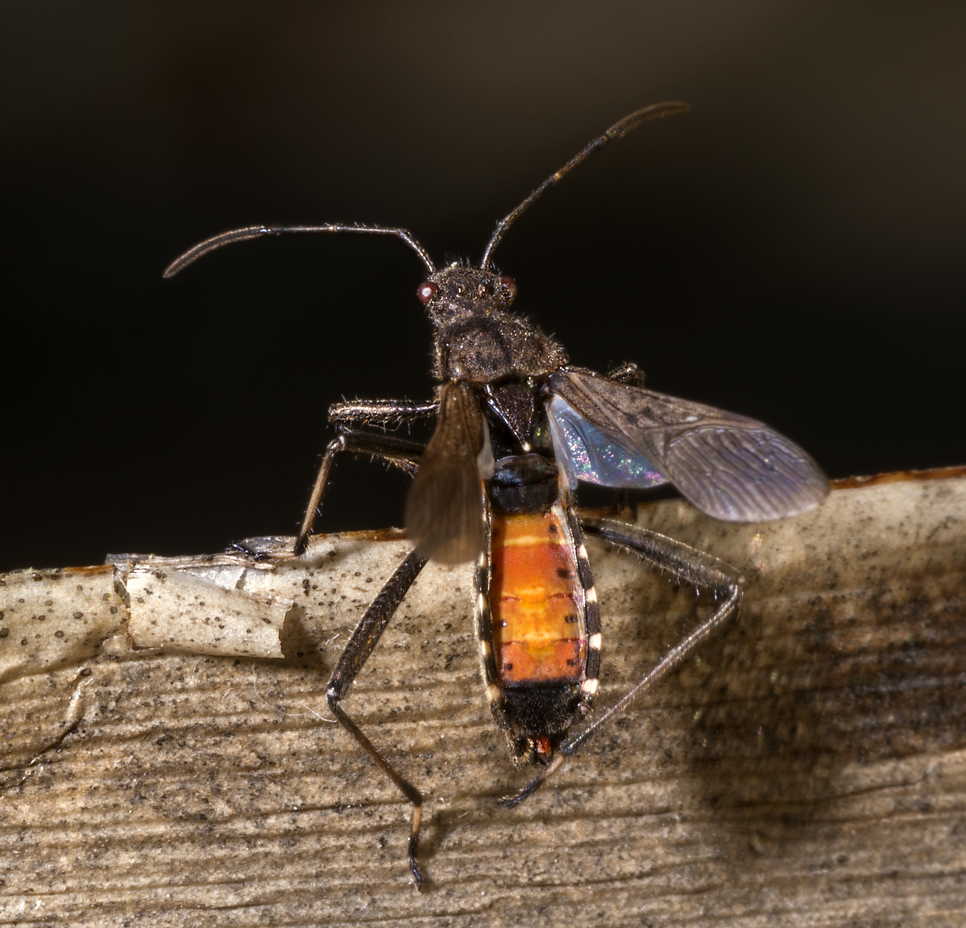 Alydus calcaratus, trying to fly.